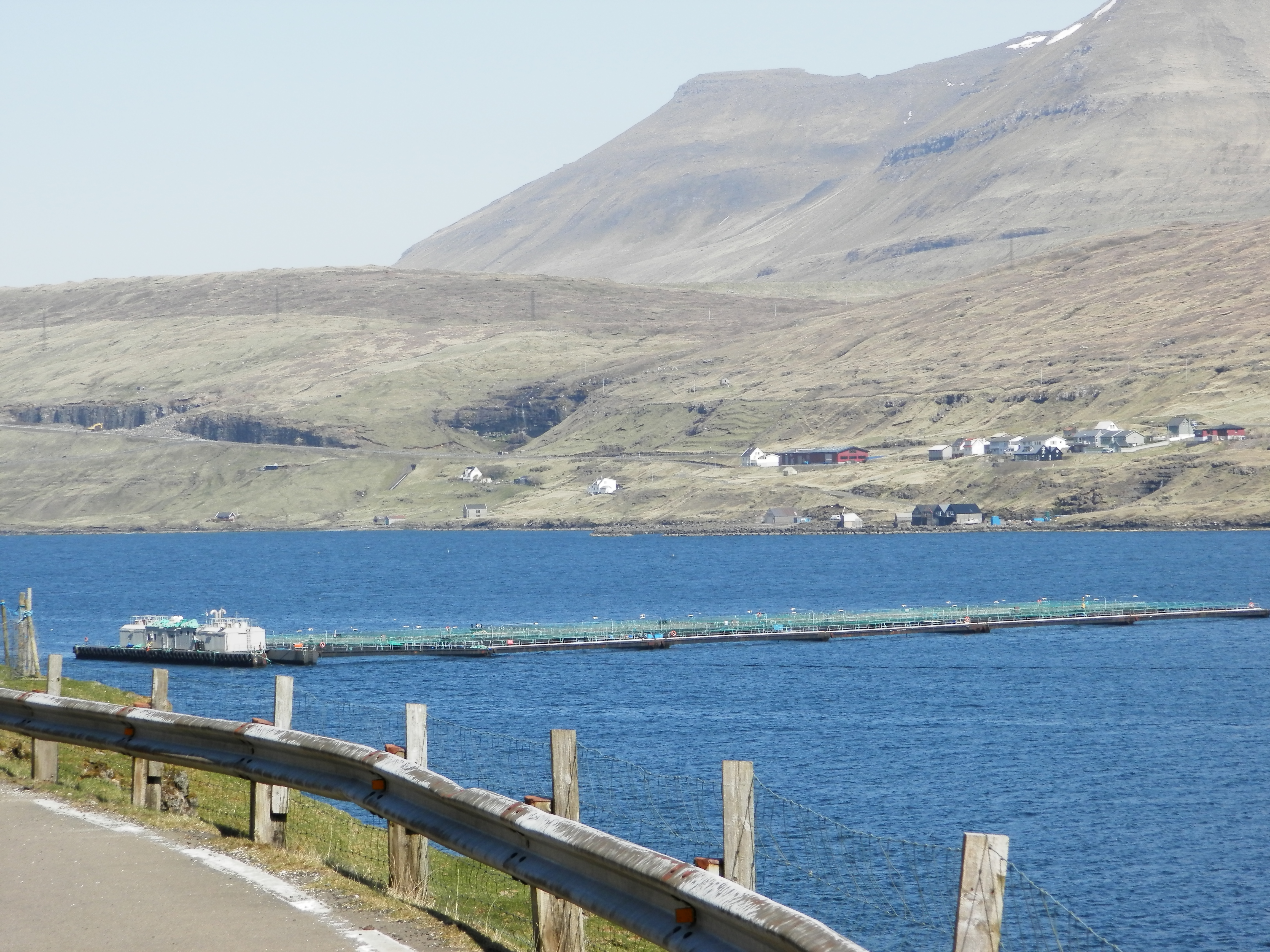 Fish farming south of Haldarsvík, Faroe Islands. The village on the other side of Sundalagið is Ljósá or Ljósáir on Eysturoy island.